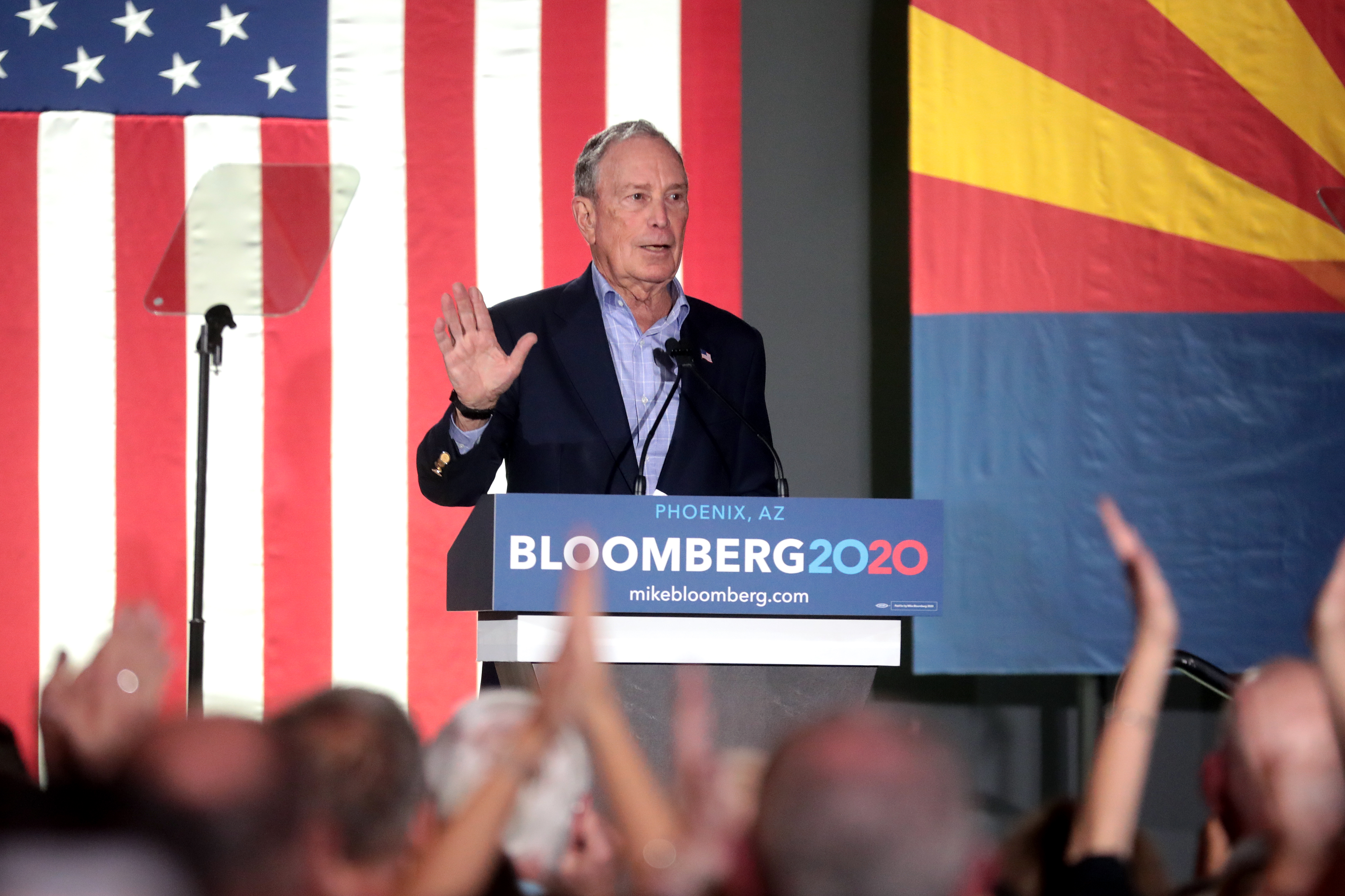 Former Mayor Mike Bloomberg speaking with supporters at a campaign rally at Warehouse 215 at Bentley Projects in Phoenix, Arizona.